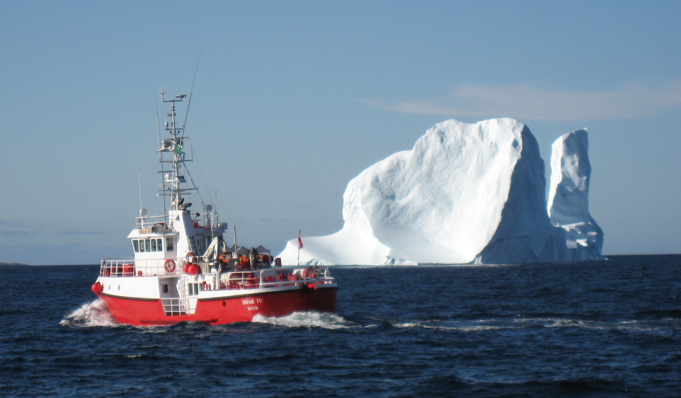 The police boat Sisak IV leaves Upernavik, Greenland with iceberg in the background. IMO Number: 9206346 MMSI Number: 331099000 Callsign: OZVC Length: 24 m Beam: 6 m